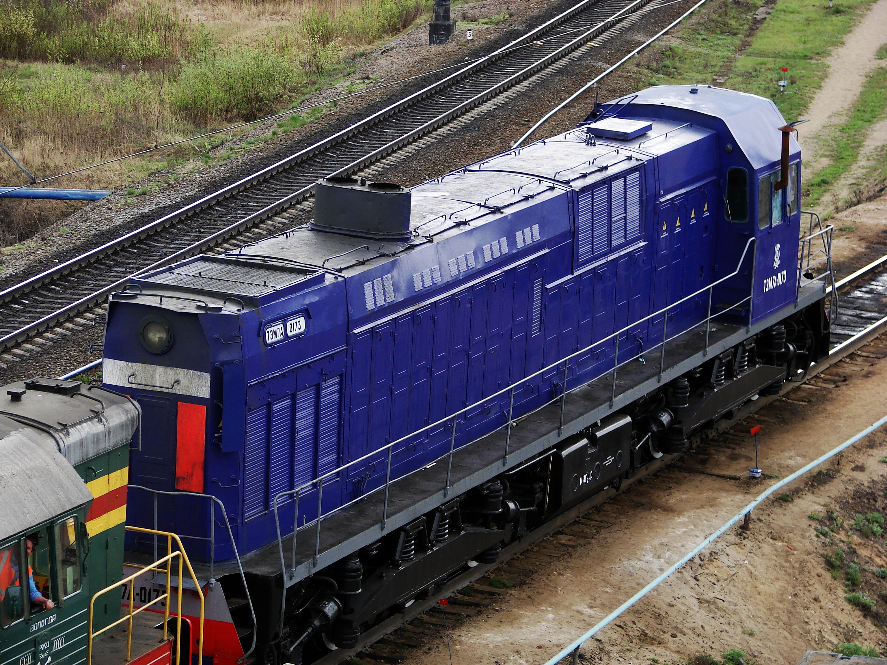 Diesel locomotives TEM7A in Russia